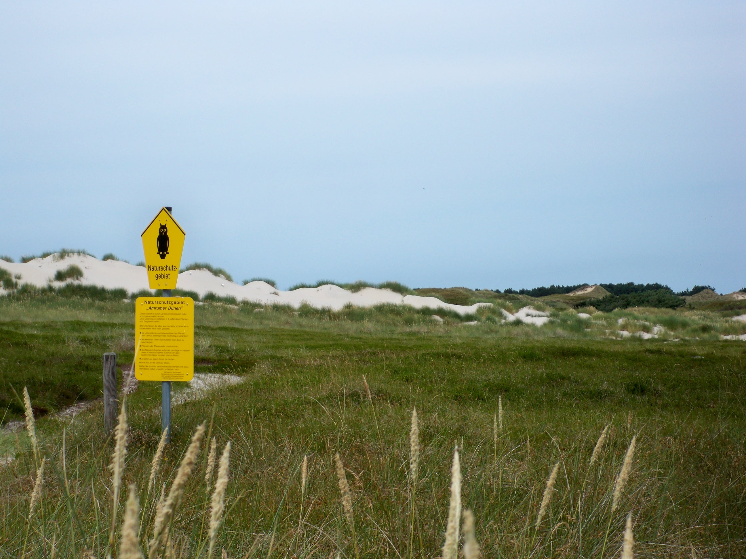 Amrum, nature reserve "Amrumer Dünen" near Süddorf